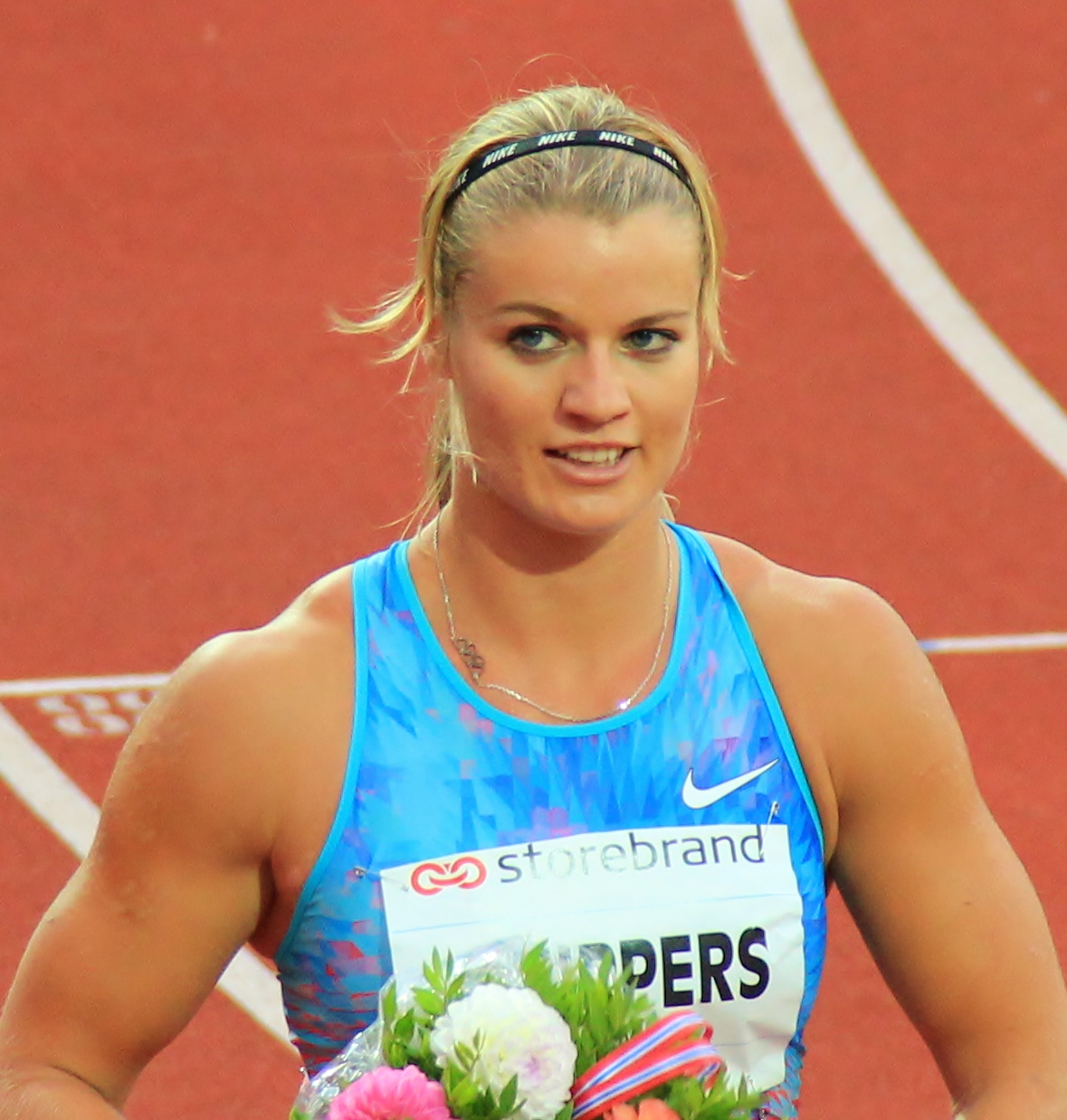 Dafne Schippers at the 2017 Bislett Games